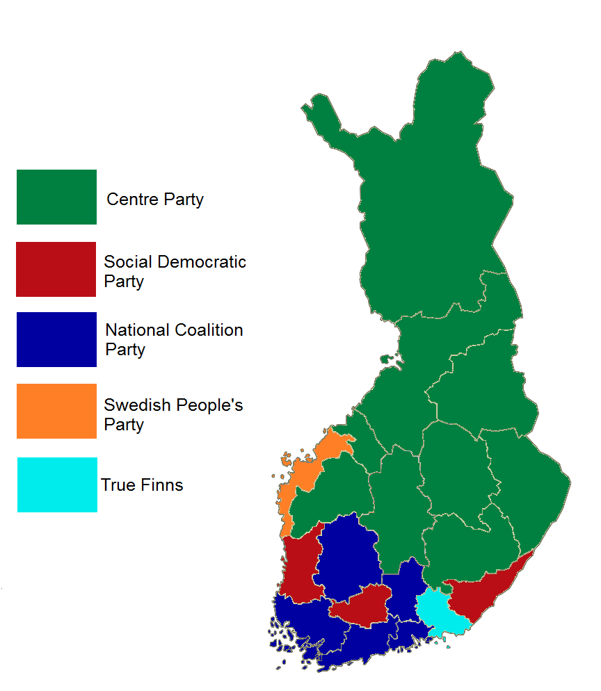 Finnish parliamentary election results by province, 2007